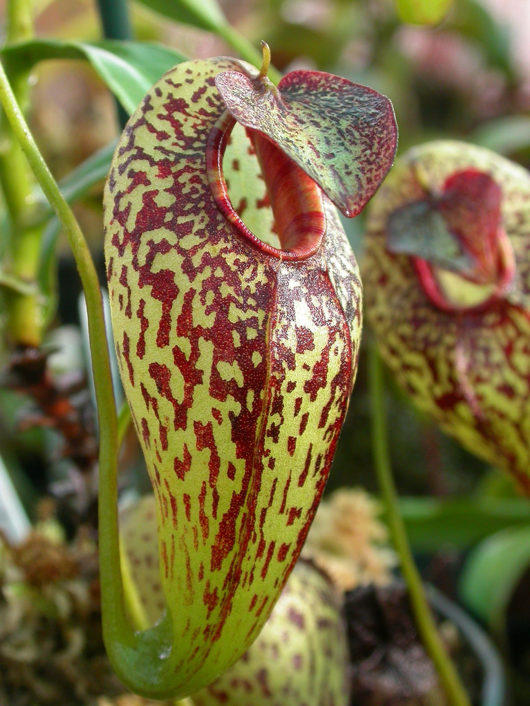 Cultivated N. aristolochioides. -Jeremiah